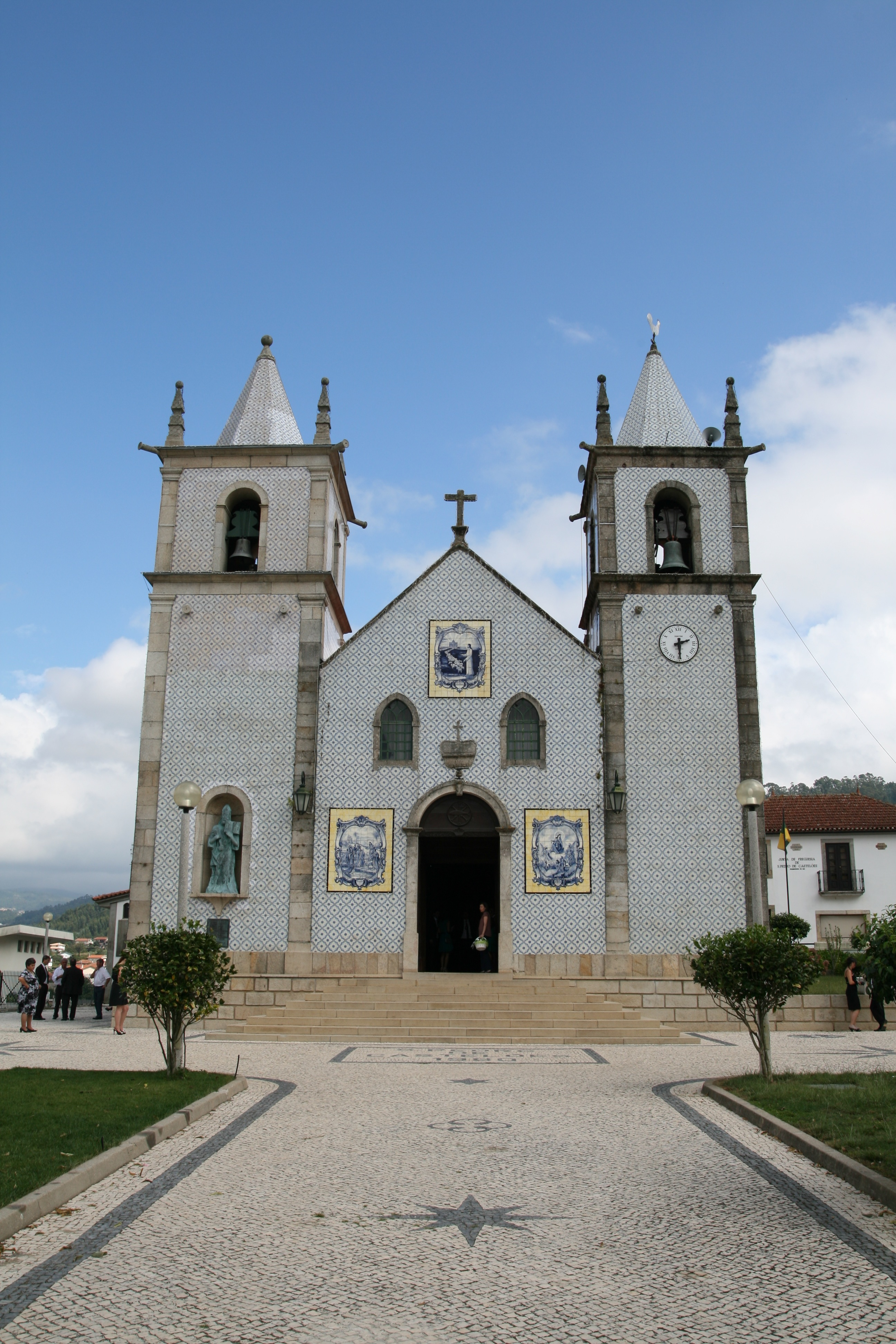 This file was uploaded for Wiki Loves Monuments in Portugal with the unique identifier 97009800.